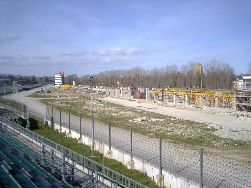 Autodromo di Imola reconstruction. Taken on March 2007